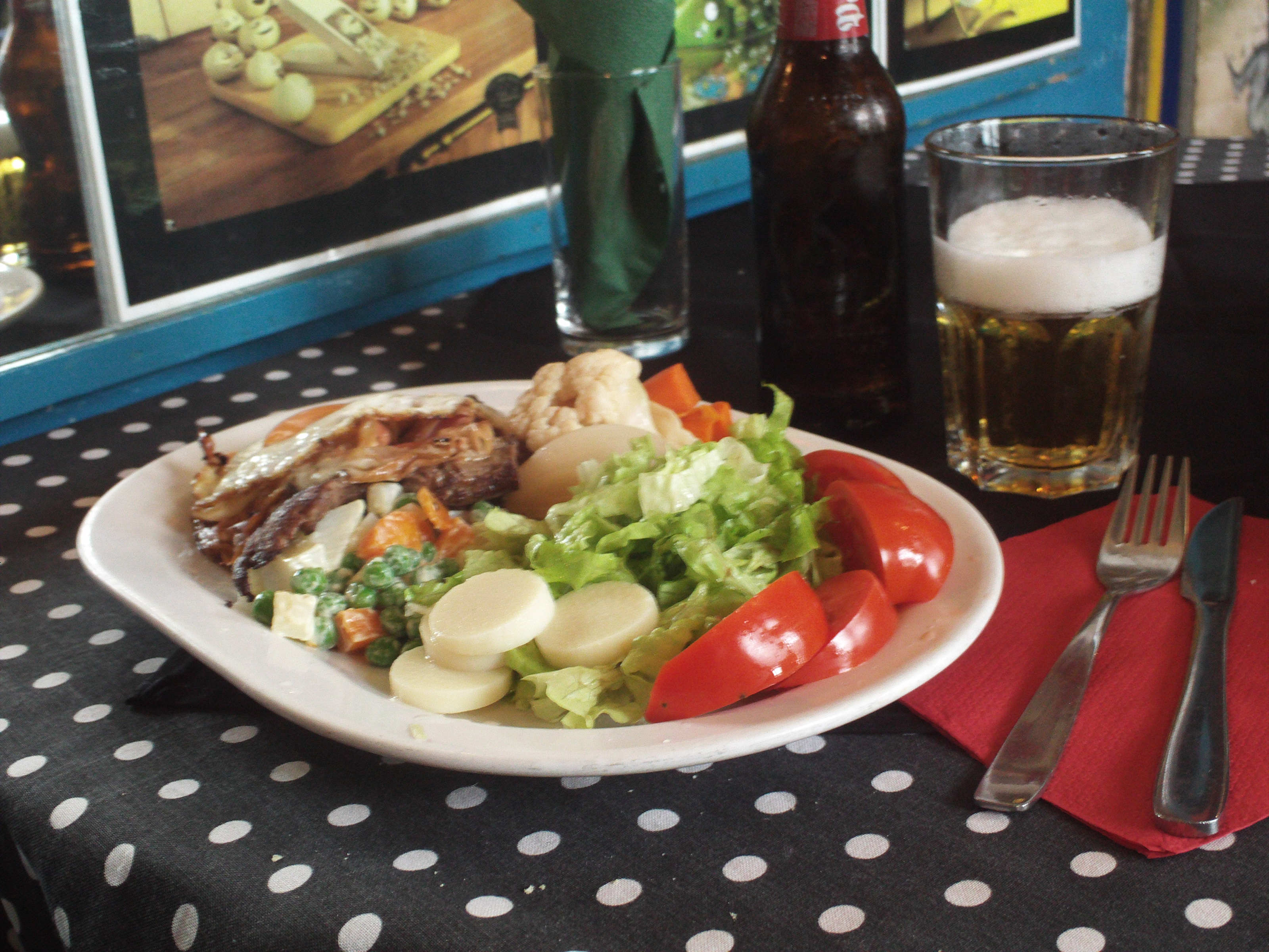 Chivito al plato (chivito on a plate) at the restaurant El Drugstore in Colonia del Sacramento.